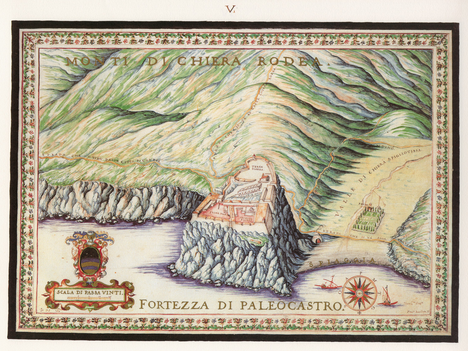 Fortezza del Paleocastro - Francesco Basilicata - 1618